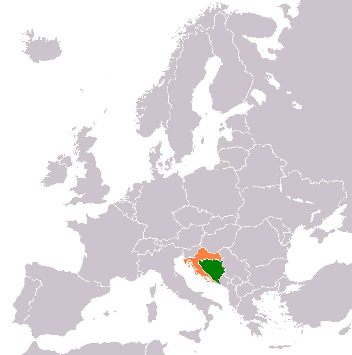 Locator map or Europe showing Bosnia and Herzegovina in green and Croatia in orange.